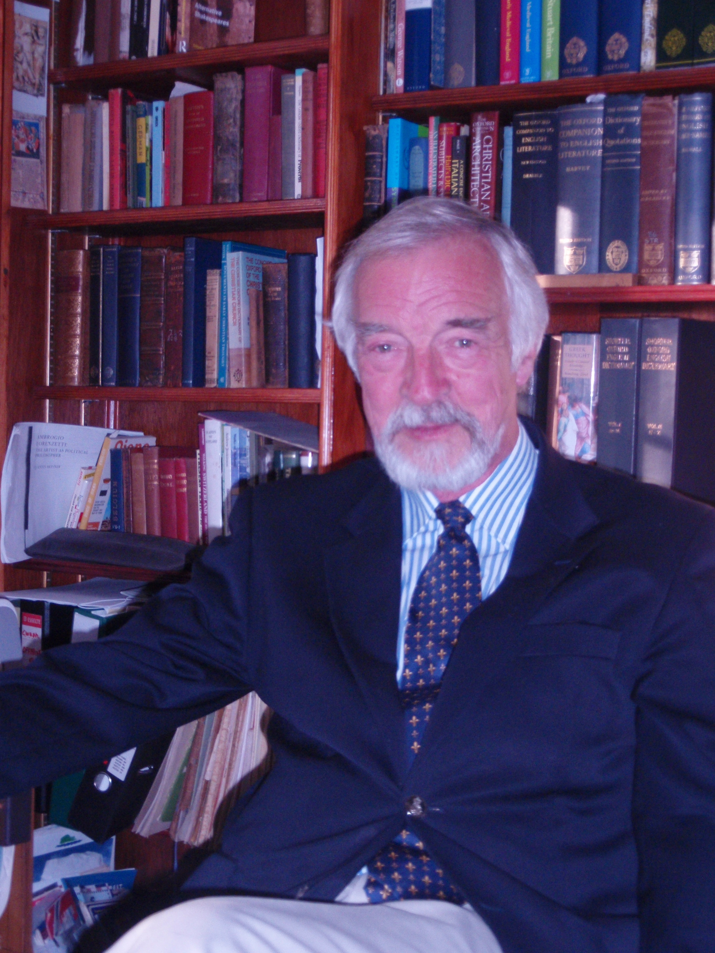 Dr Charles W. R. D. Moseley, Life Fellow of Hughes Hall, Cambridge.